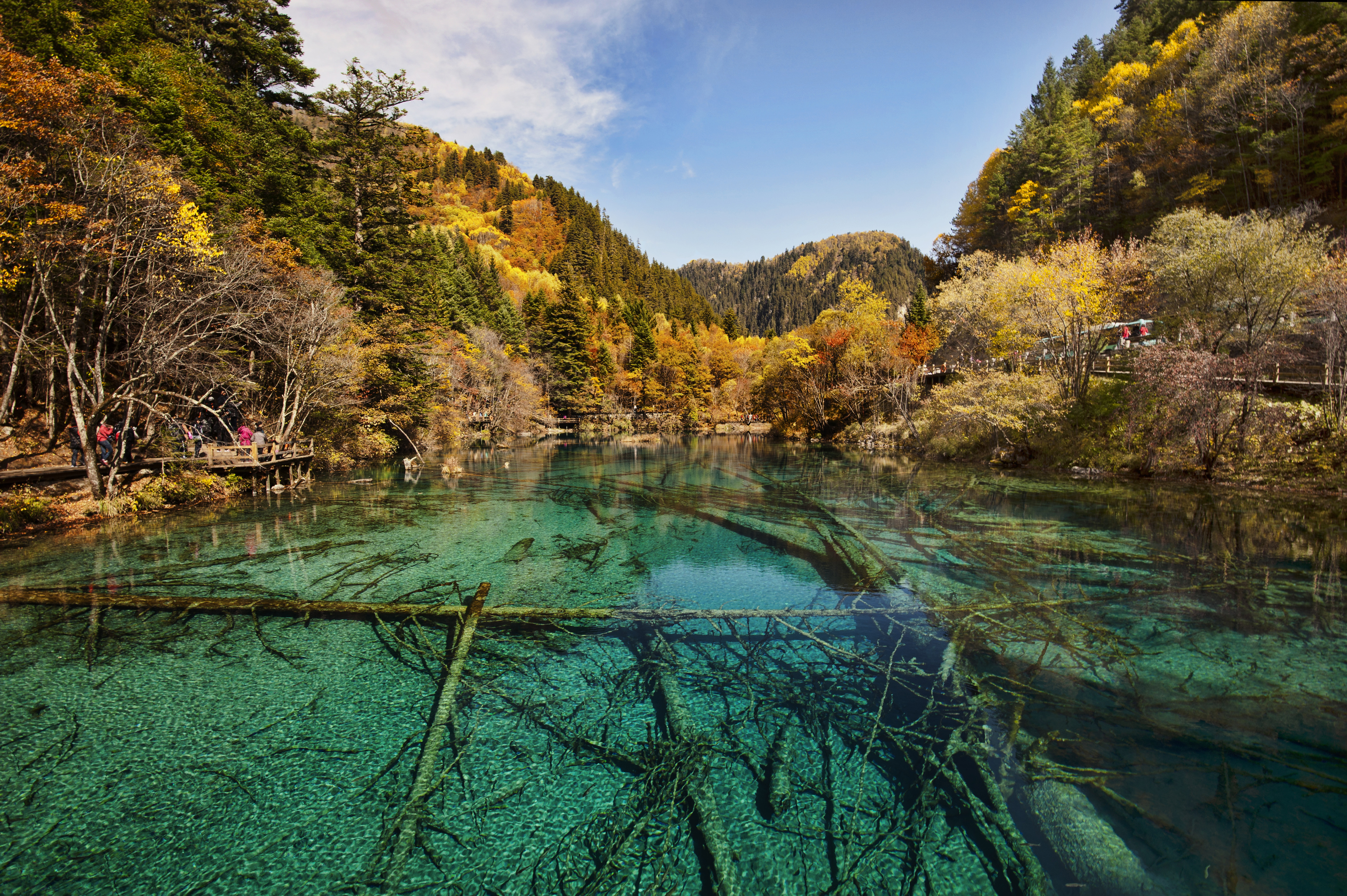 Landscape of Five Flower Lake (pinyin: Wǔhuā Hǎi) in Rize Valley (pinyin: Rìzé Gōu), Jiuzhaigou Valley National Park, Sichuan Province, People's Republic of China (2011).